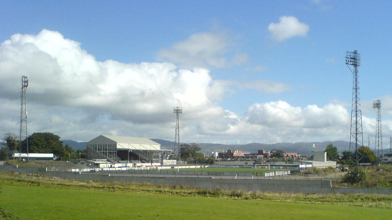 Oriel Park, Dundalk, County Louth, Ireland (Capacity: 4,500)